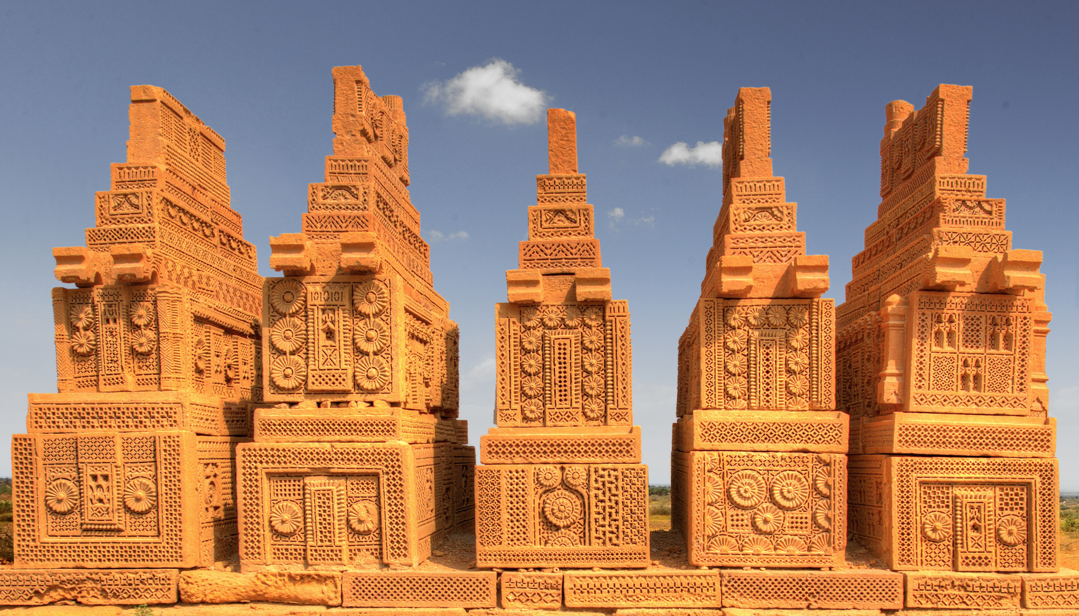 Sindh archeological sites and centuries old monuments. Built between the 15th and 19th centuries by Balochs the tombs are of various sizes. The distinguishing feature of these graves is the superb carving and engraving on the slabs with various designs of jewelry; floral patterns, horses and even their riders. The tomb slab of a woman's grave is embellished with designs of jewelry, necklace, earrings and rings resembling those still worn today. The men's graves bears stylised stone turban on top, carvings of weapons of war or animal heads, horses and riders. This design may have originated in the Rajput custom of temporarily burying a fallen soldier in the battlefield and marking his grave with his upright sword crowned with his turban.